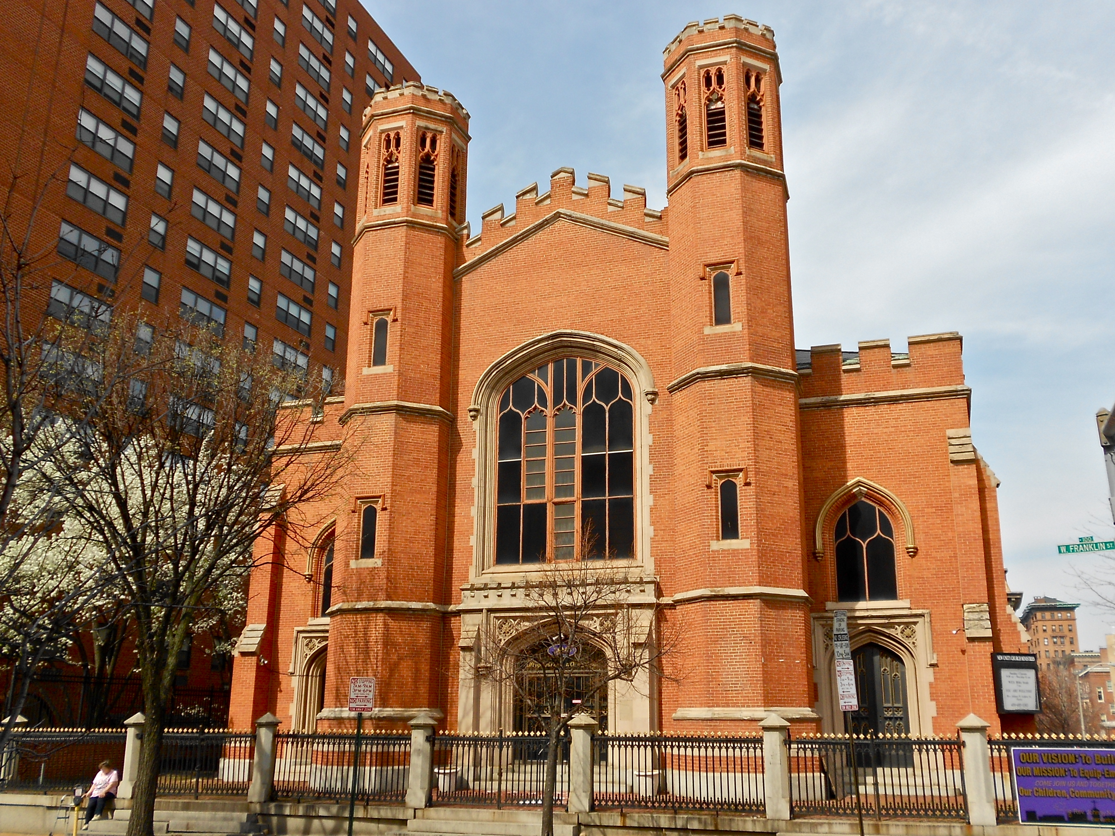 Franklin Street Presbyterian Church, now New Unity Church Ministries, on the NRHP since November 5, 197. At 100 W. Franklin St. (church), 504 Cathedral St. for parsonage (also in NRHP site) in central Baltimore, Maryland.